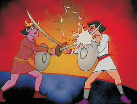 Purush in action